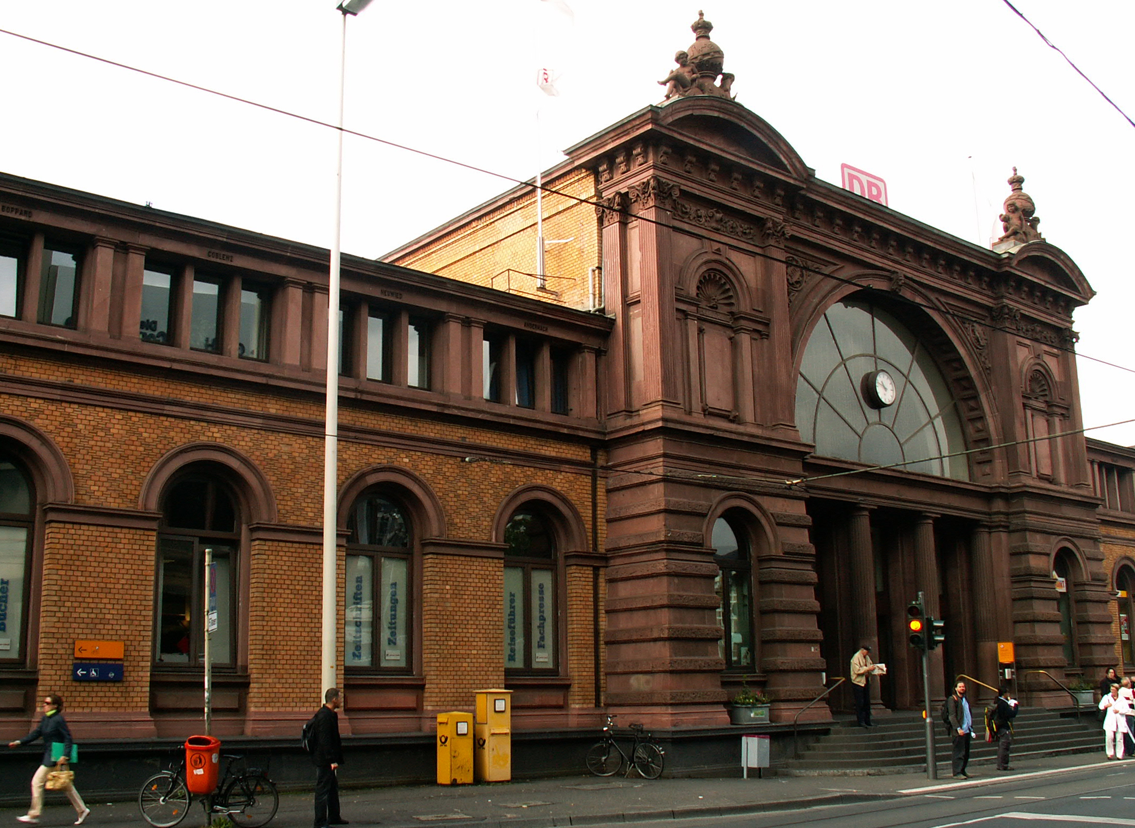 Main Train Station